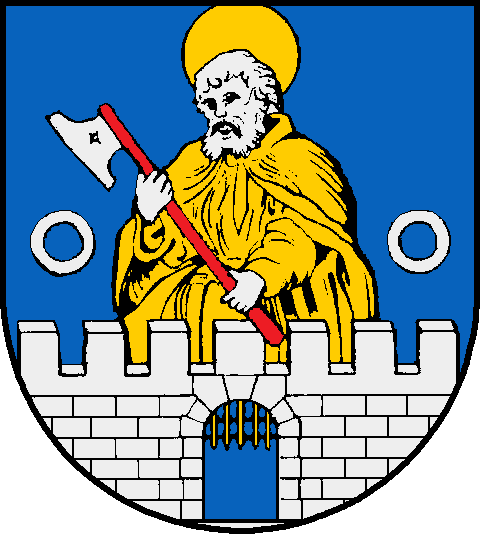 Coat of arms of the town (Stadt) Marne in Schleswig-Holstein, Germany.